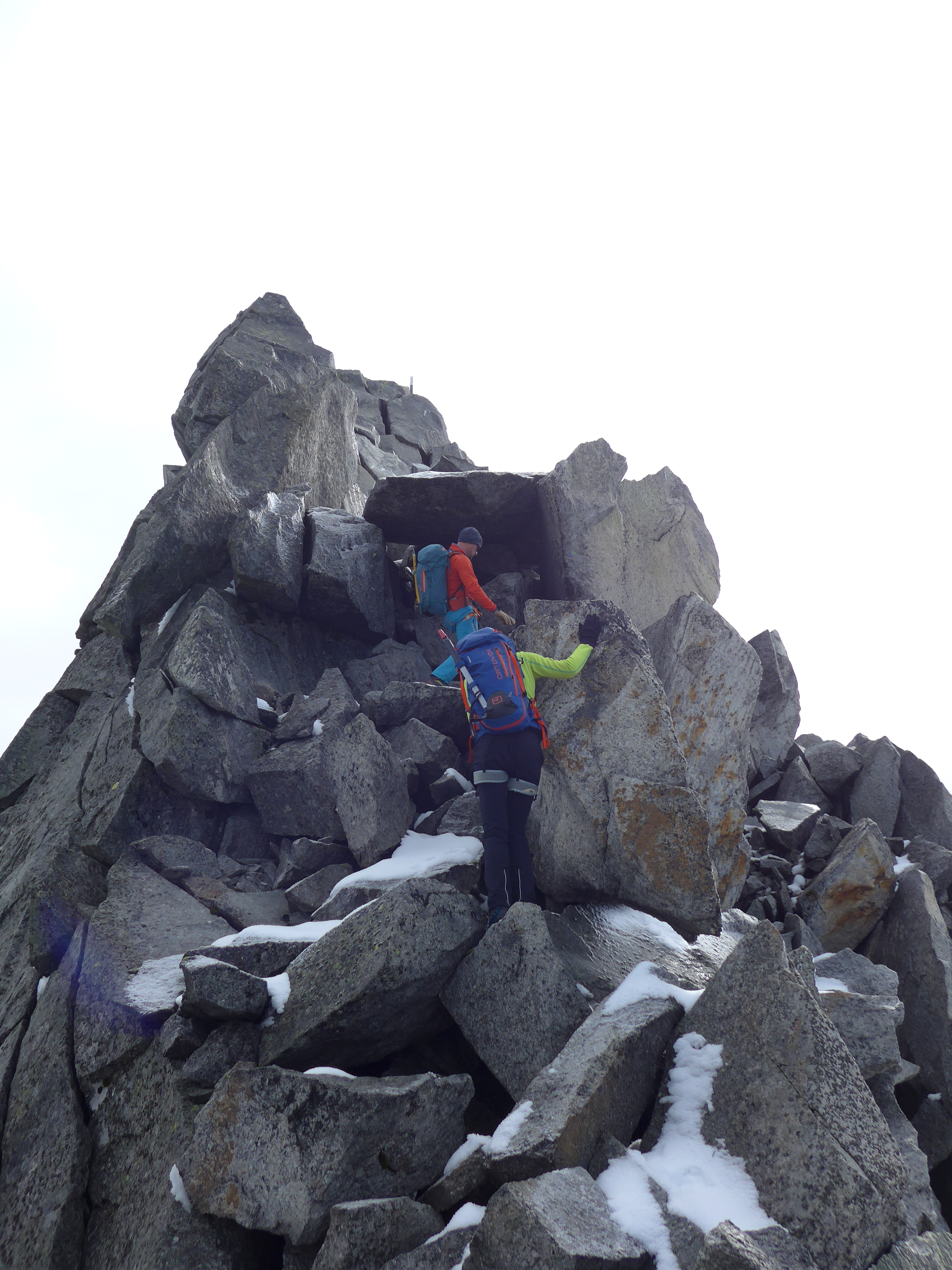 Final ridge of Keilbachspitze from west